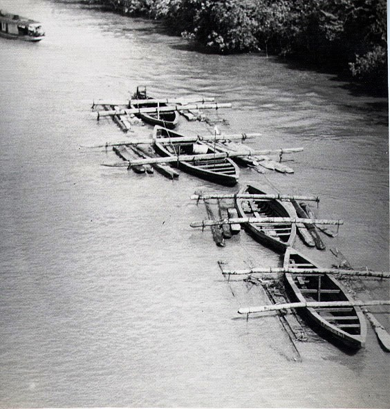 My father took this photo in 1955 when he traveled through Suriname on a health survey.